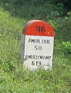 Milestone - RN6 - Madagascar